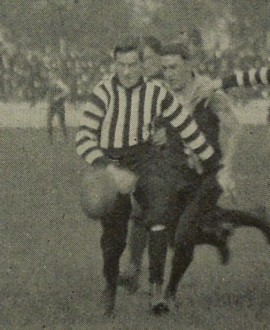 Photograph of Alex Holland from 1906-1907 .